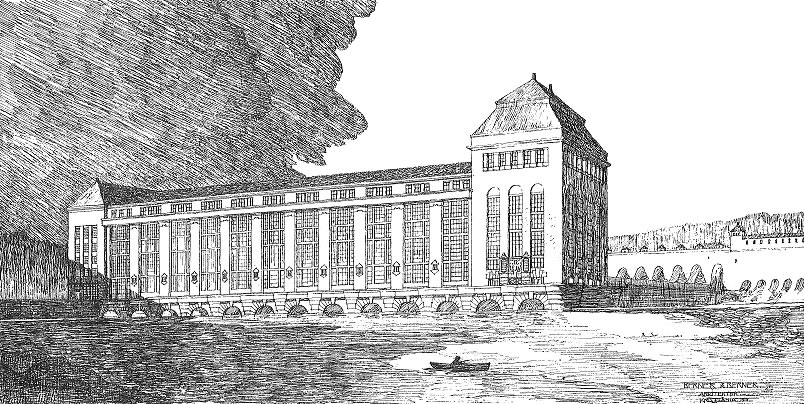 Drawing by Gottfred Sætersmoen from year 1918 showing the proposed power plant Urriðafossvirkjun in river Þjórsá